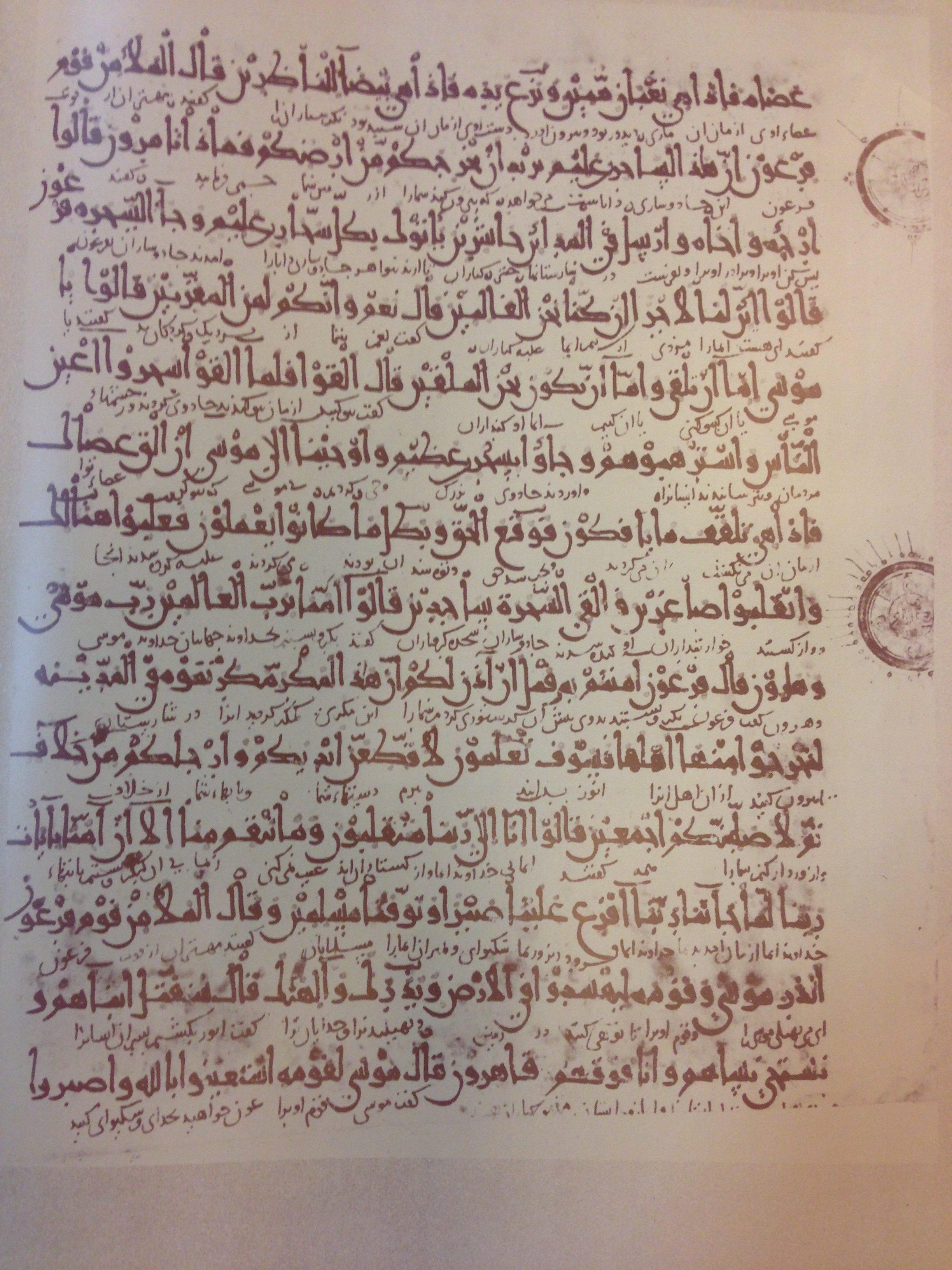 oldest persian translate of quran